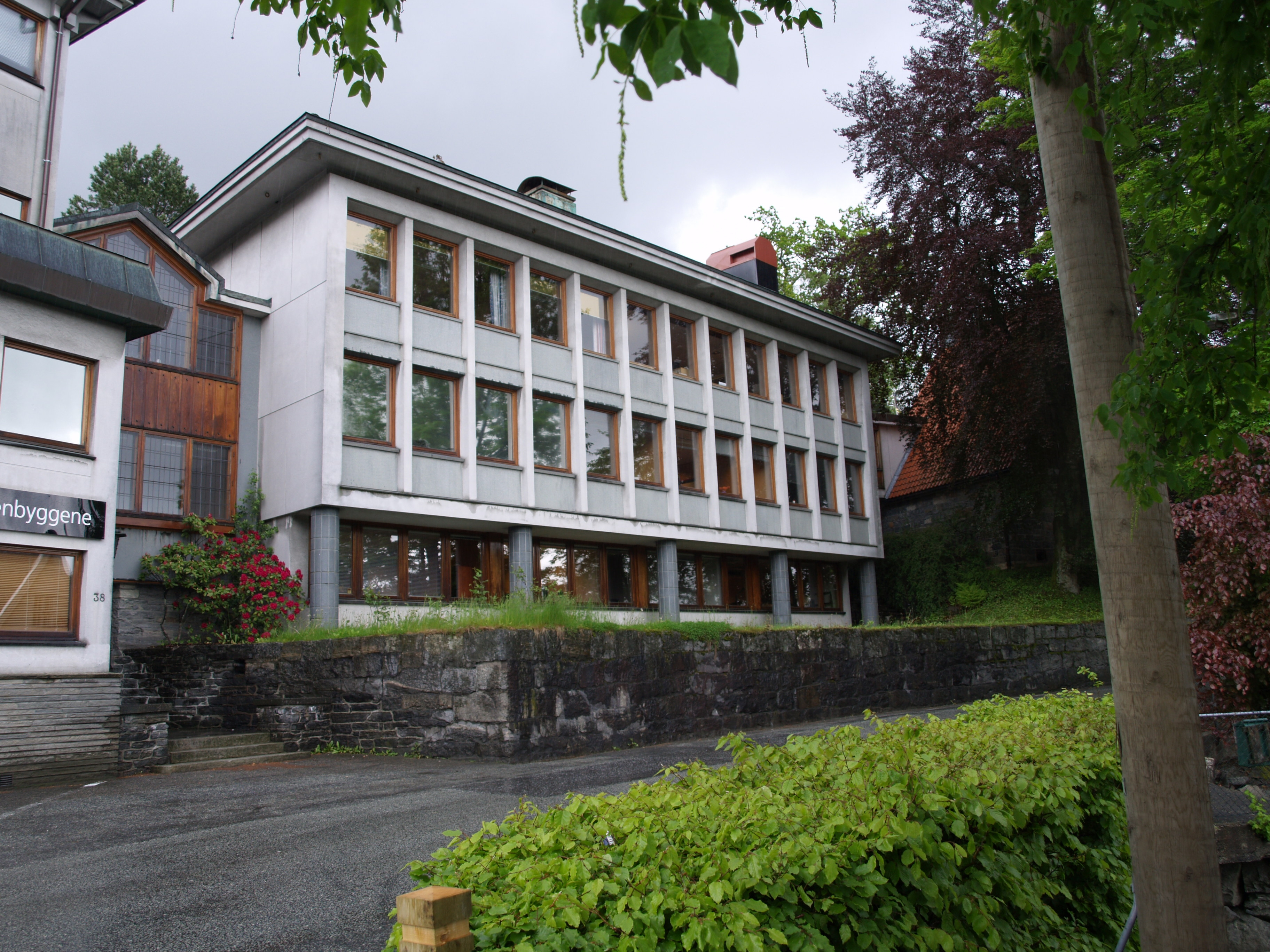 The office of the Reksten shipping company